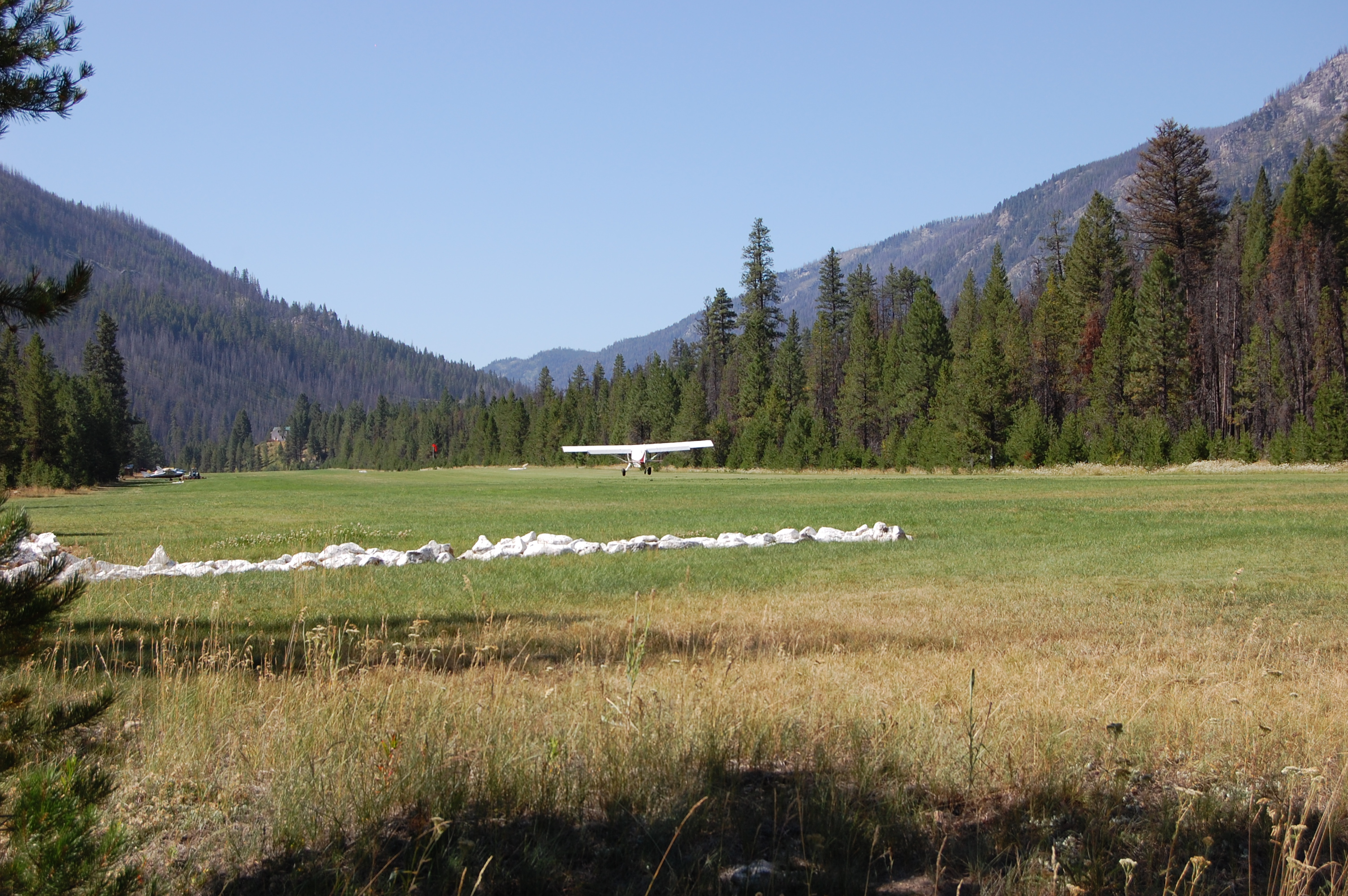 A Maule M6 lands at Johnson Creek